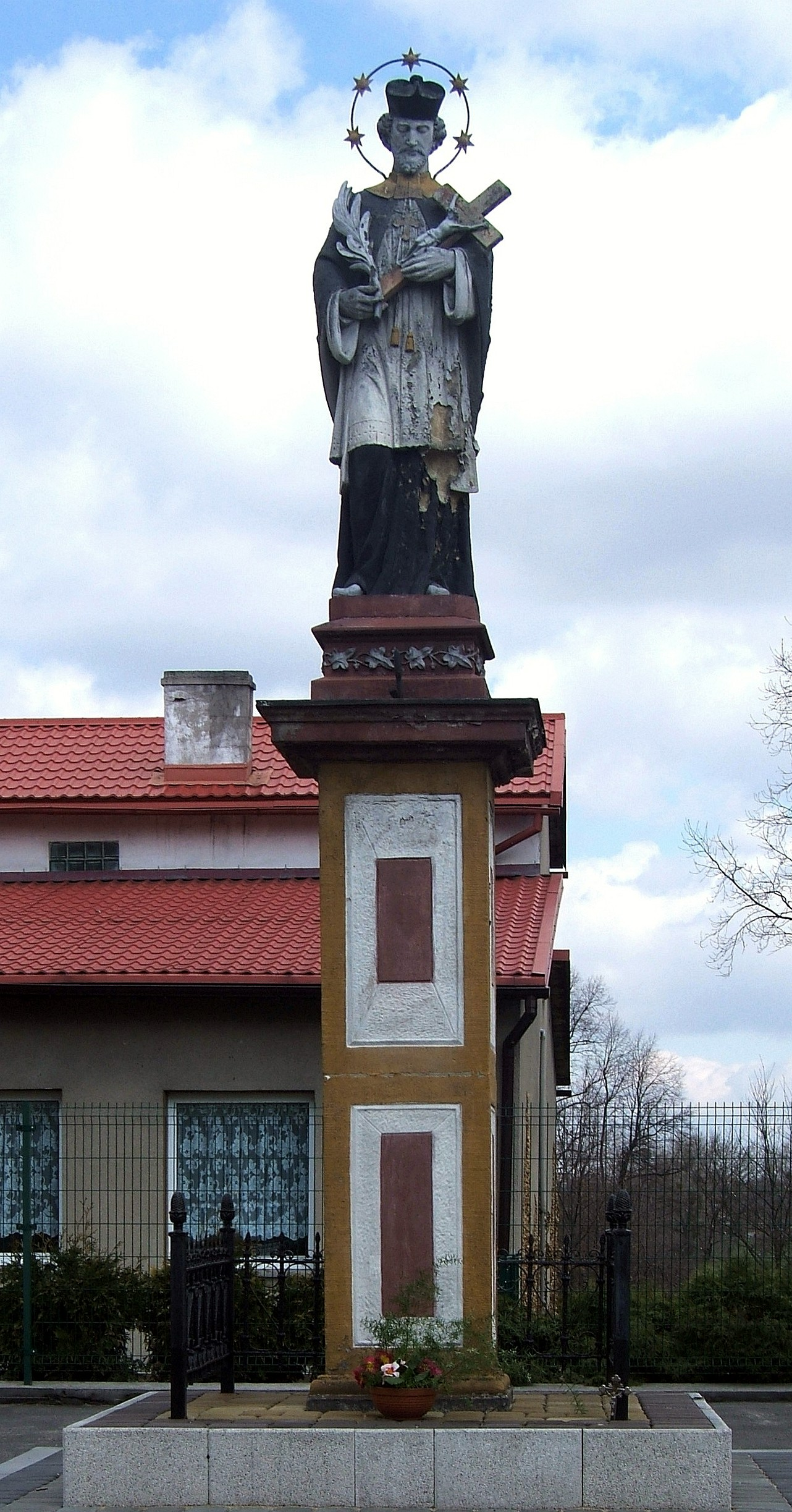 Statue of John of Nepomuk (19th cent.) in Sośnicowice.